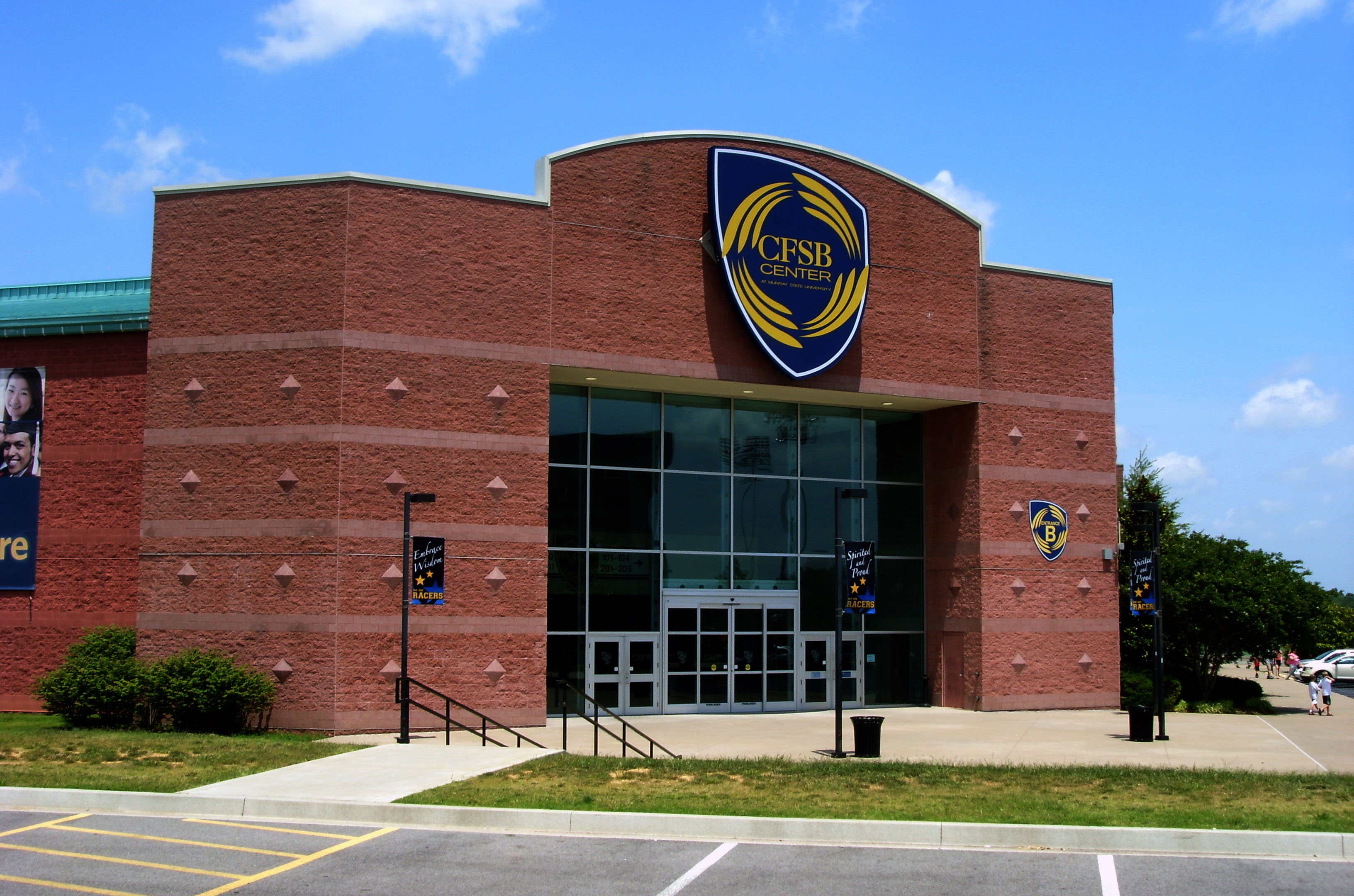 CFSB Center at Murray State University